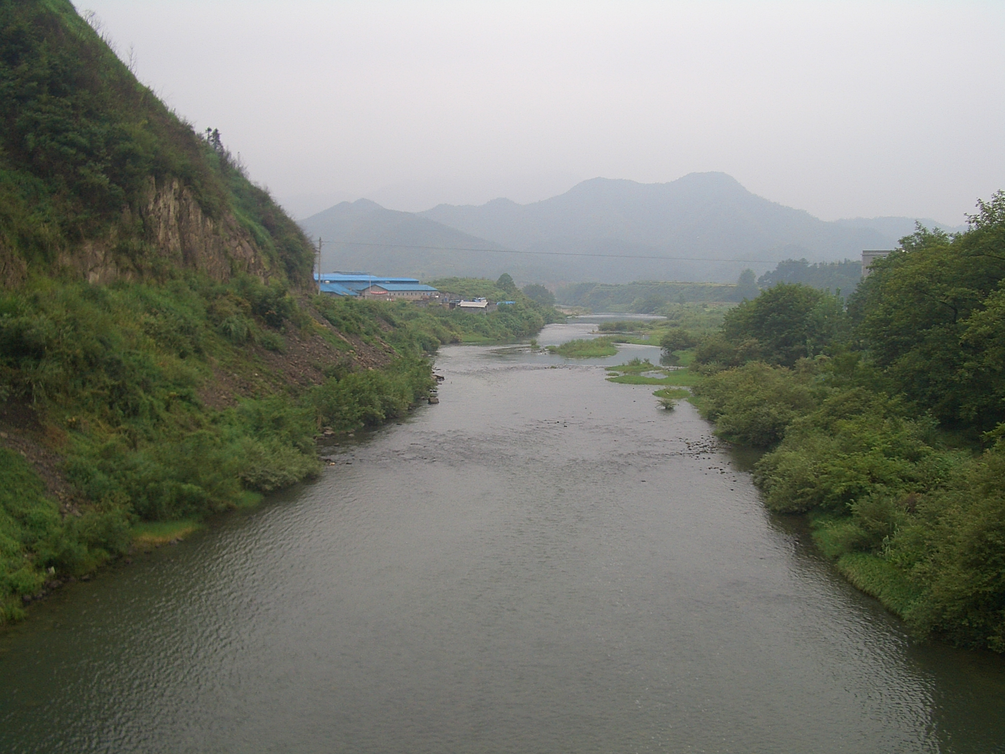 The Yanxia River and a bridge over it outside of Honggang Town, Tongshan County, Hubei.